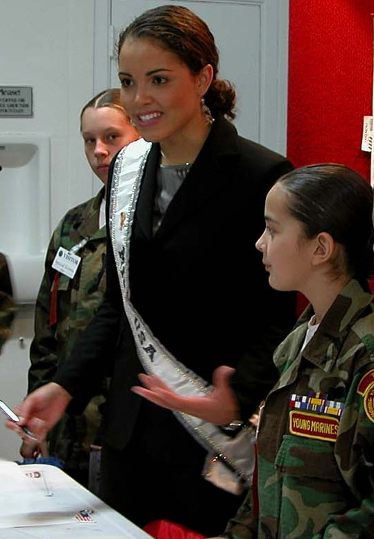 Miss USA 2003 Susie Castillo signs autographs for members of the Young Marines during Red Ribbon Week activities at the Pentagon Oct. 27. Castillo told the audience that children can stop drug abuse by just saying "No!" Photo by Sgt. 1st Class Doug Sample. This photo was cropped to exclude as much as possible, while preserving Susie Castillo fully in the picture.